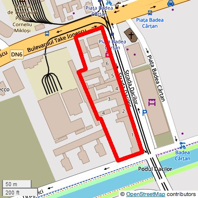 Map of heritage site "Ansamblul urban Badea Cârțan", Timișoara, Romania